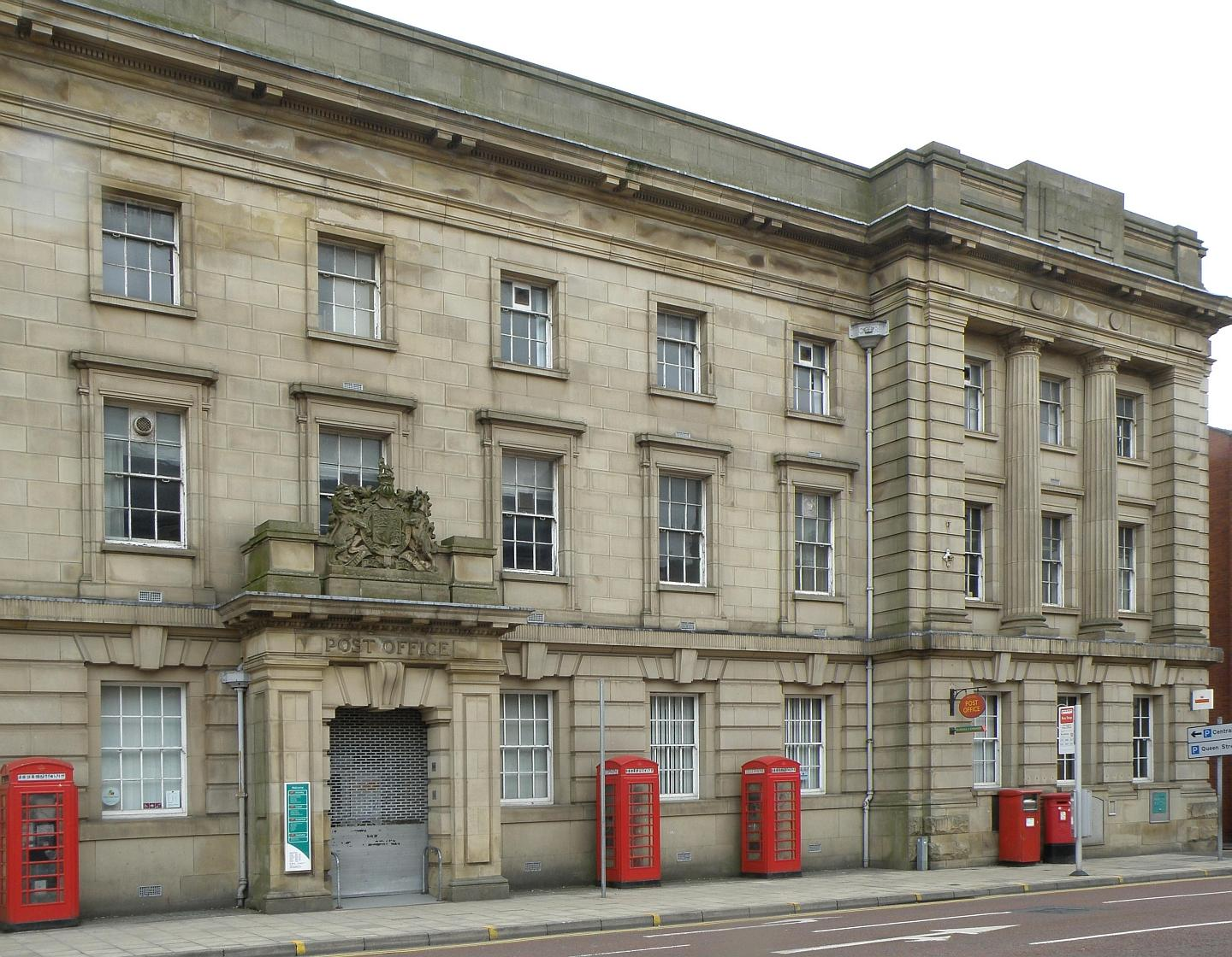 Main Post Office on Deansgate, Bolton, Greater Manchester, England